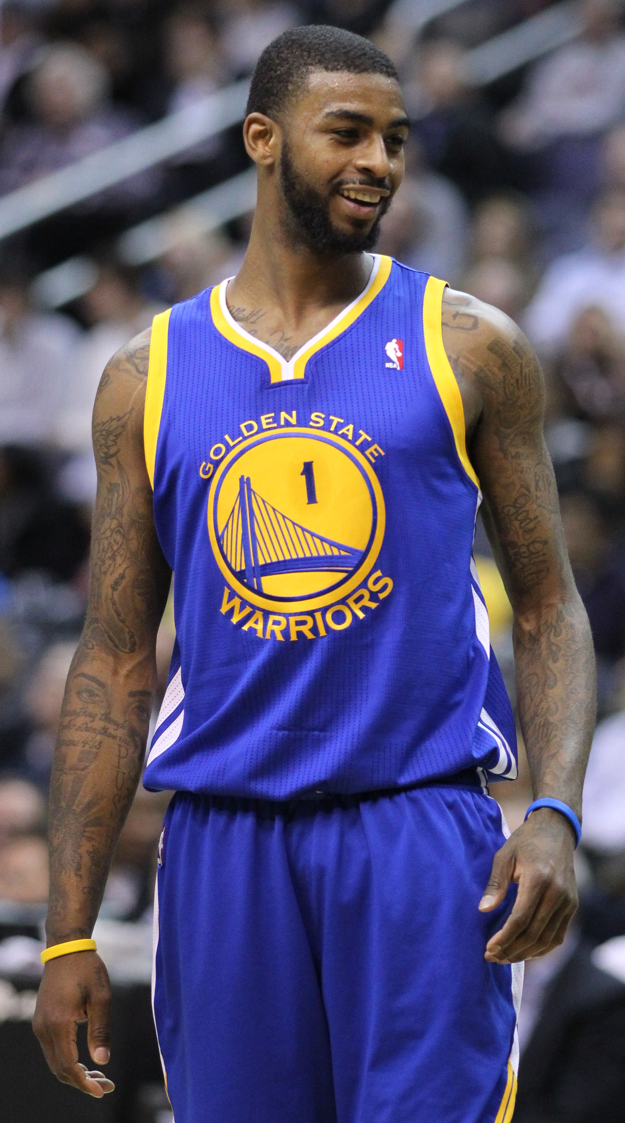 Wizards v/s Warriors 03/02/11